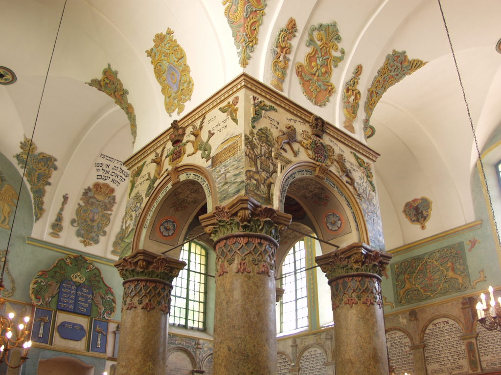 Synagogue in Łańcut